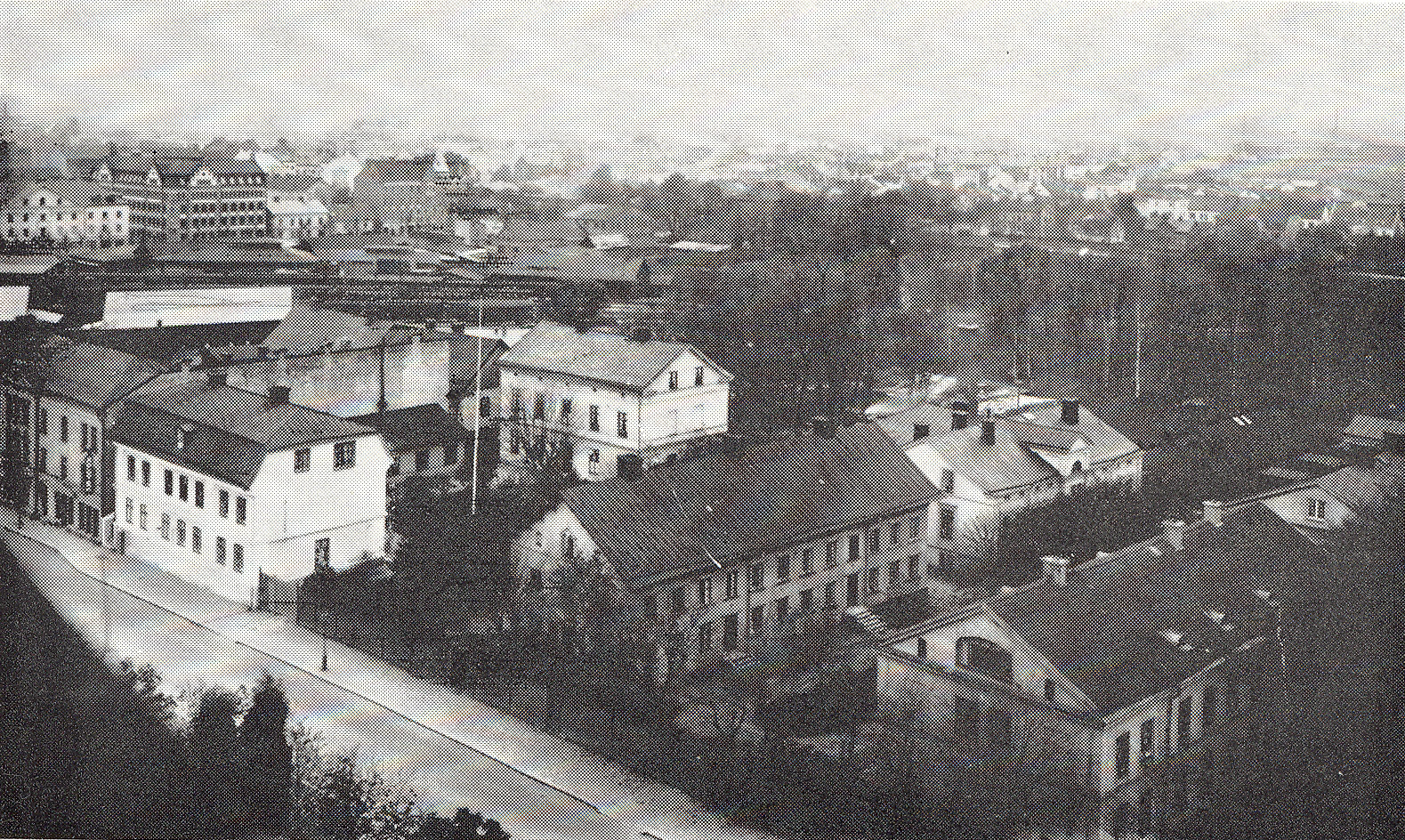 The old hospital area in Örebro, Sweden